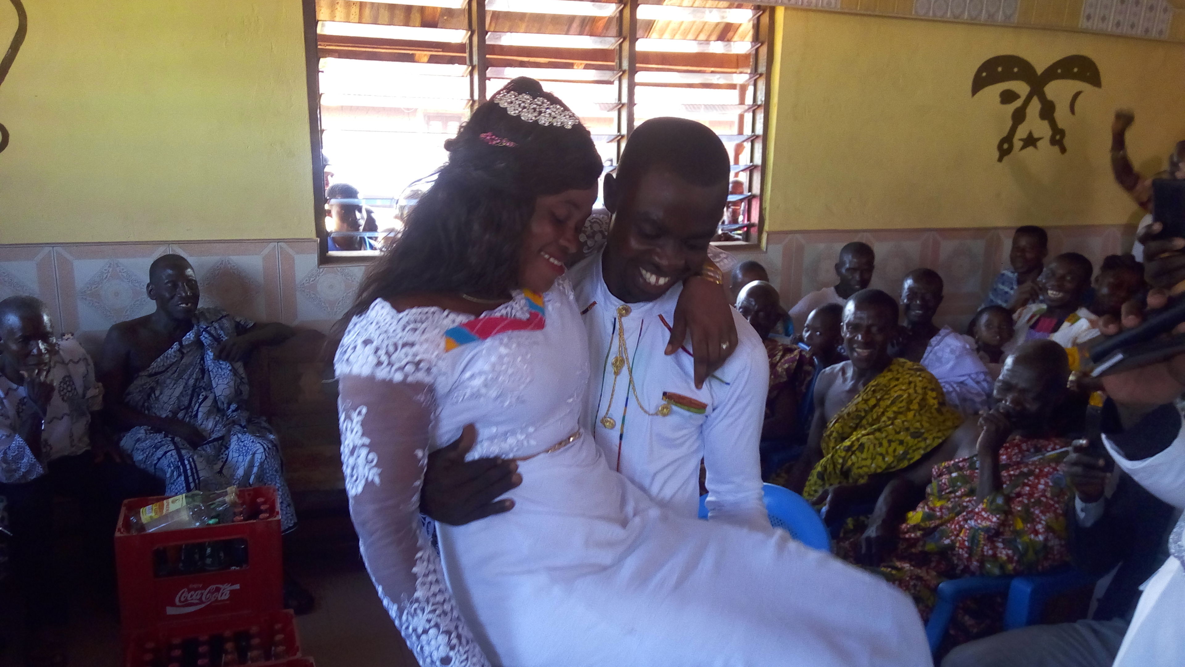 Marrying the love of my Life